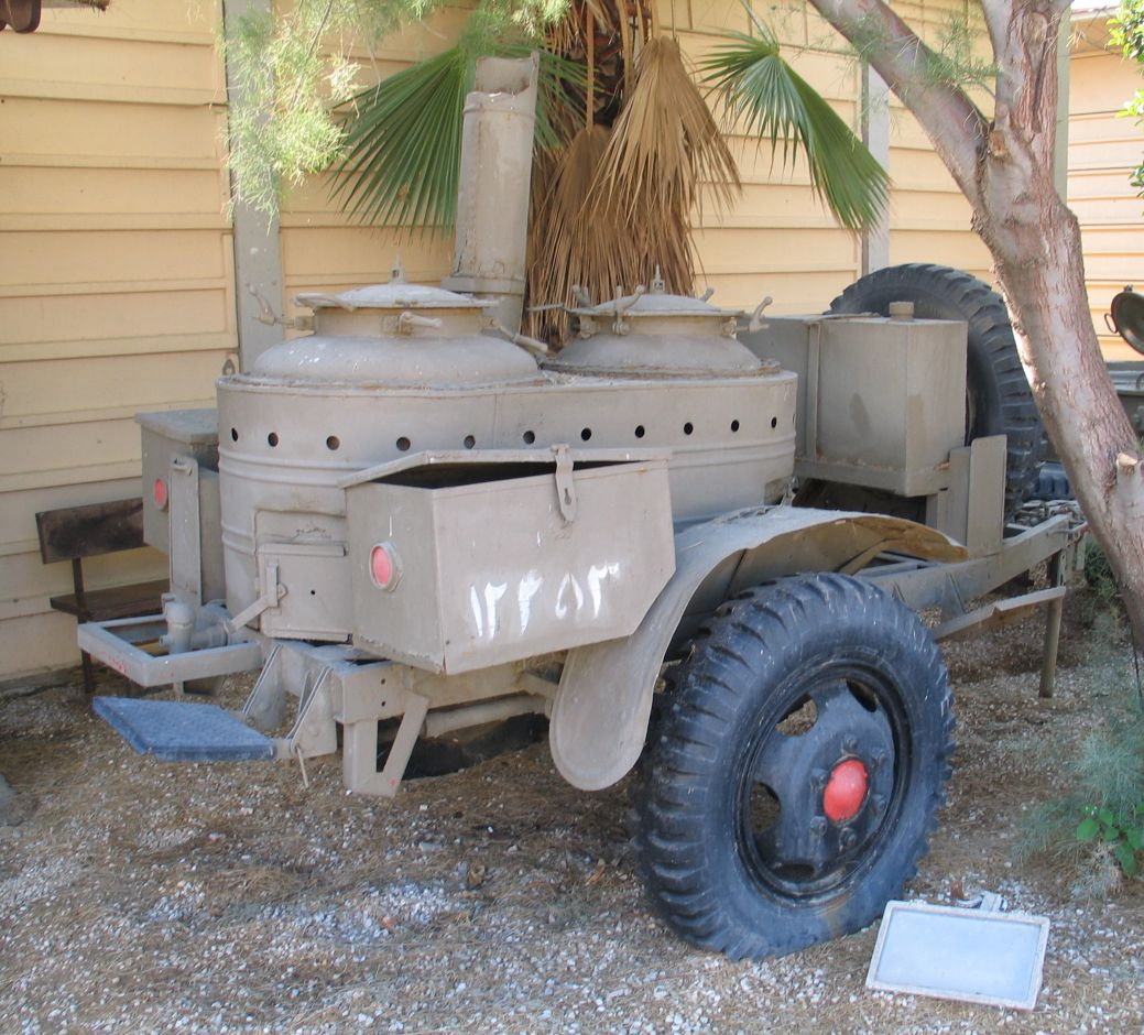 Description: Field kitchen (Soviet KP-2-49) in Batey ha-Osef Museum, Tel-Aviv, Israel. Source: Photo by me, User:Bukvoed.